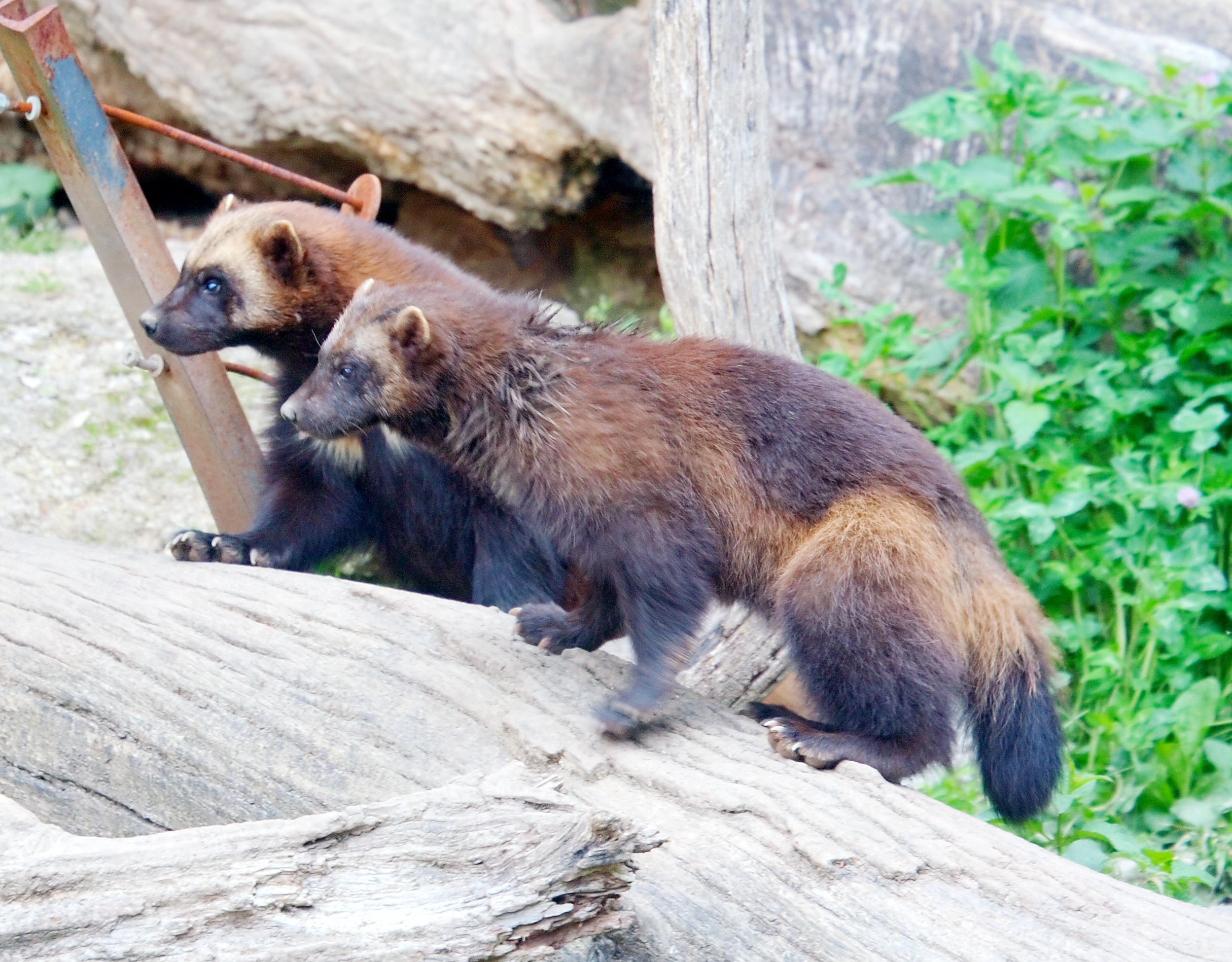 Wolferine